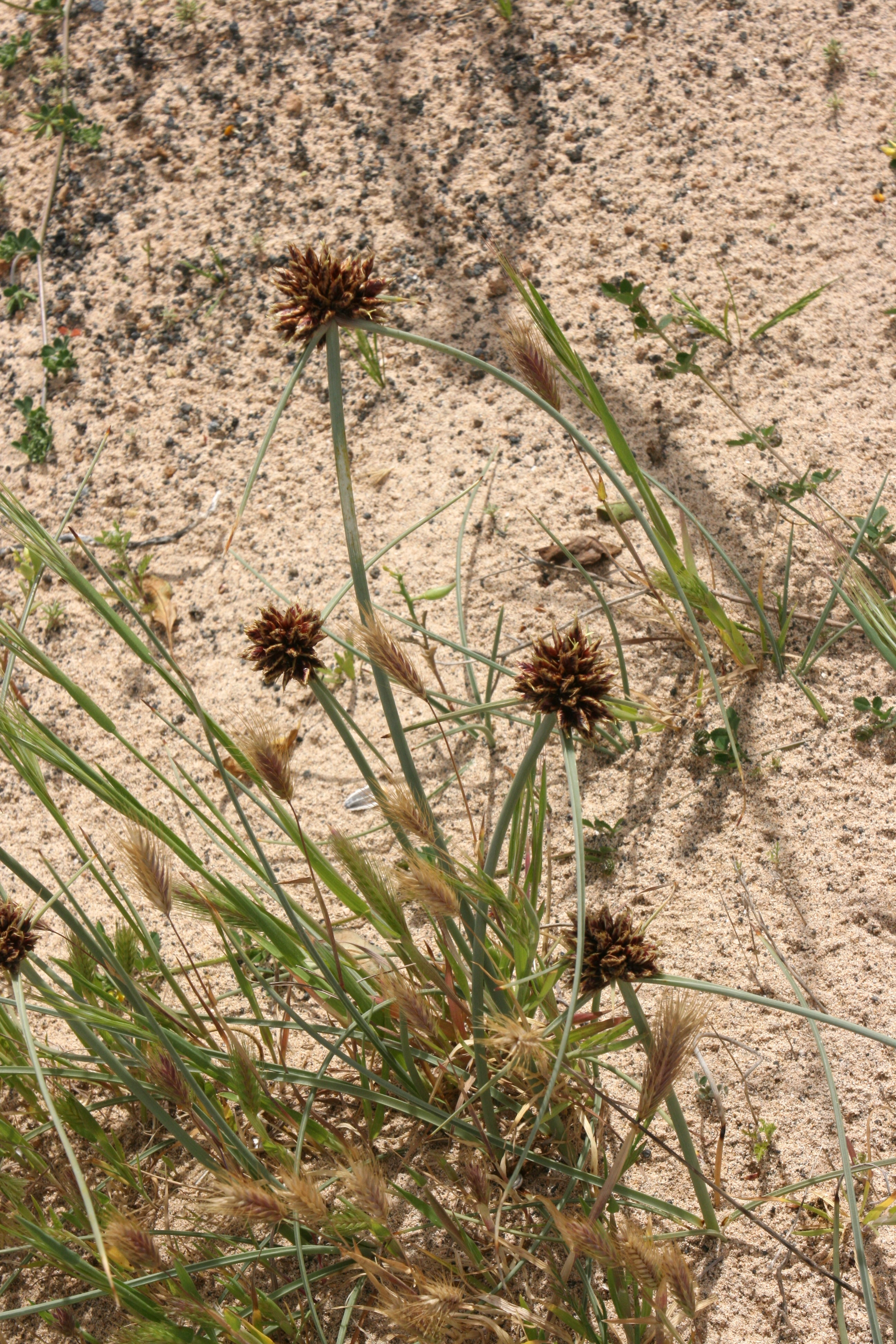 Cyperus capitatus growing at Avenida Bencomo, road LZ-20 in Tao, Teguise, Lanzarote, Canary Islands